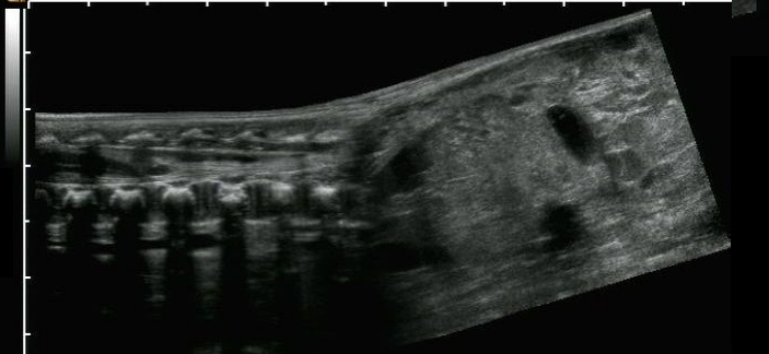 Ultrasound scan of neonate with coccygeal teratoma showing relation zu bony structures and distance to medullary conus